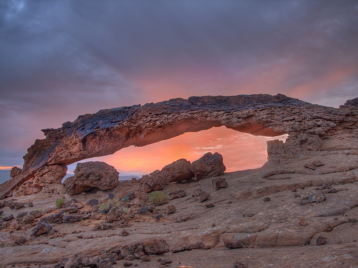 Sunset Arch, GCNRA. As I turned north to head back to the truck, I saw the glow. Quickly I headed around the arch and took this shot from the south side. Meanwhile, back at the gulch ...